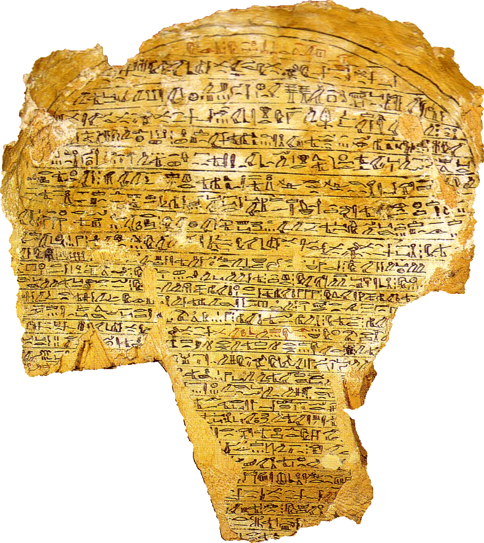 Inscriptions of the backside of the coffin of Sitdjehuti from the Staatliches Museum Ägyptischer Kunst. (Munich, Germany) On 30 lines the spells 124, 83, 84 and 85 are written.